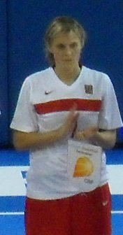 Hana Horáková (née Machová); in: Japan - Czech Republic match at 2010 FIBA World Championship for Women, Brno, Czech Republic